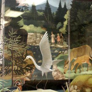 A photo of a mural located in what is now the Laconia, New Hampshire Federal Building, previous an office of the United States Forest Service.